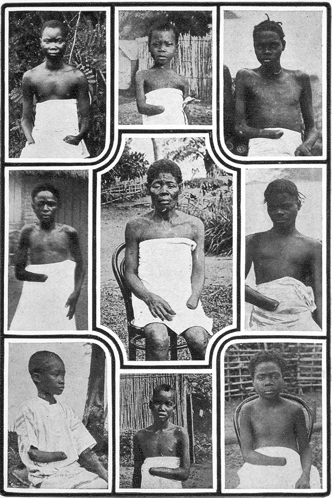 Mutilated Congolese children and adults (c. 1900-1905) — in Belgian colonial Congo Free State (present-day Democratic Republic of the Congo) Privately owned territory of Belgian King Leopold II, with numerous enslaved rubber collection/production areas in the rainforest and on plantations. Rubber production used human rights abuses against the Congolese people, including amputations for unmet quotas and other colonial offenses.